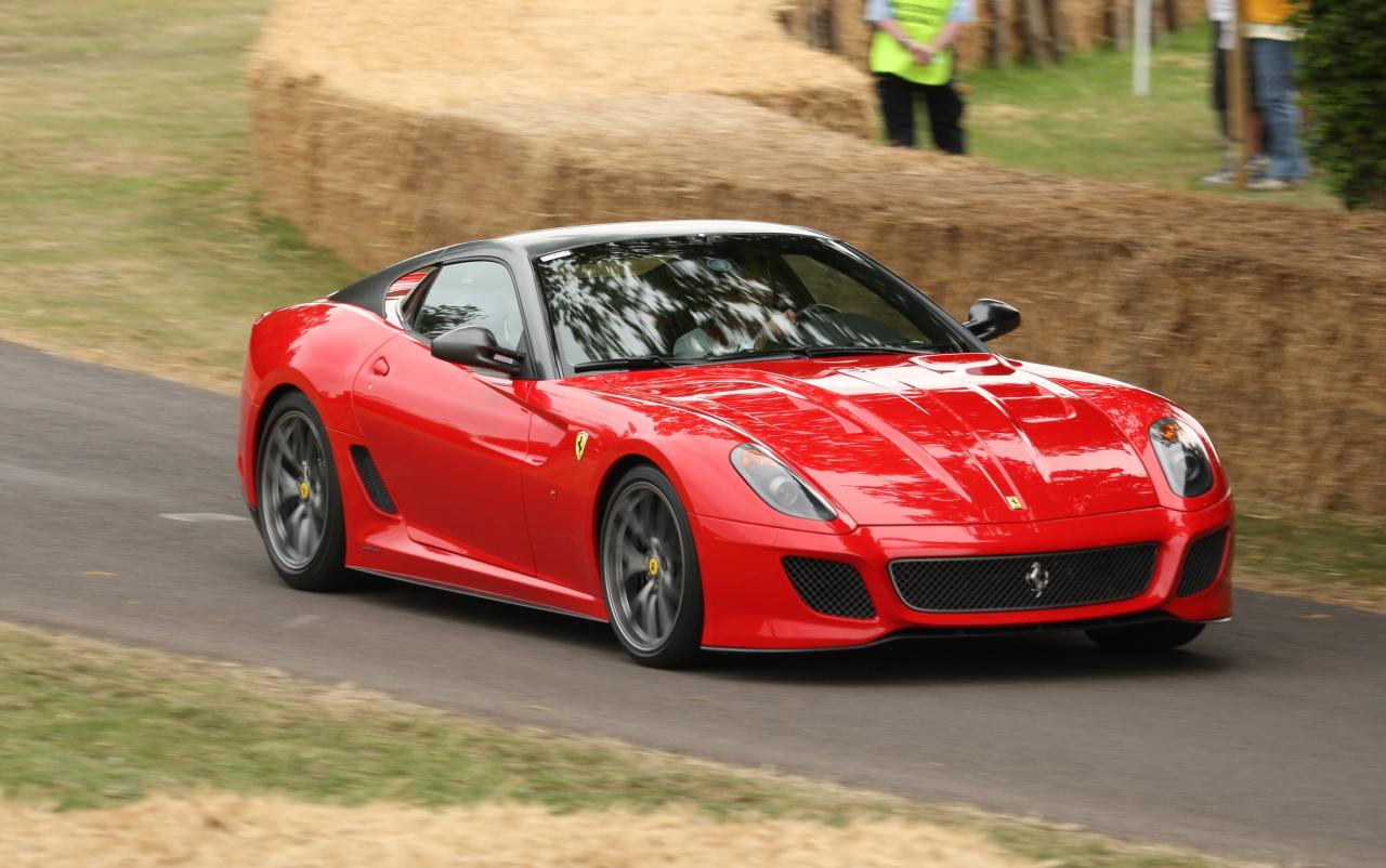 pictures from friday at fos